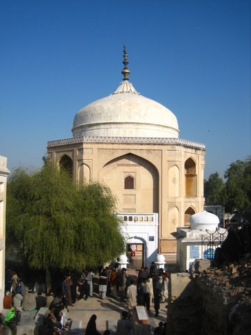 Sixteenth century shrine of Daud Bandagi Kirmani in Shergarh, District Okara, Punjab, Pakistan